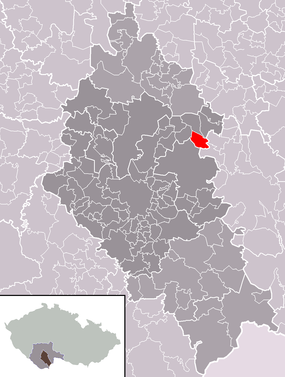 Location of Mazelov municipality within České Budějovice District and administrative area of České Budějovice as a Municipality with Extended Competence.